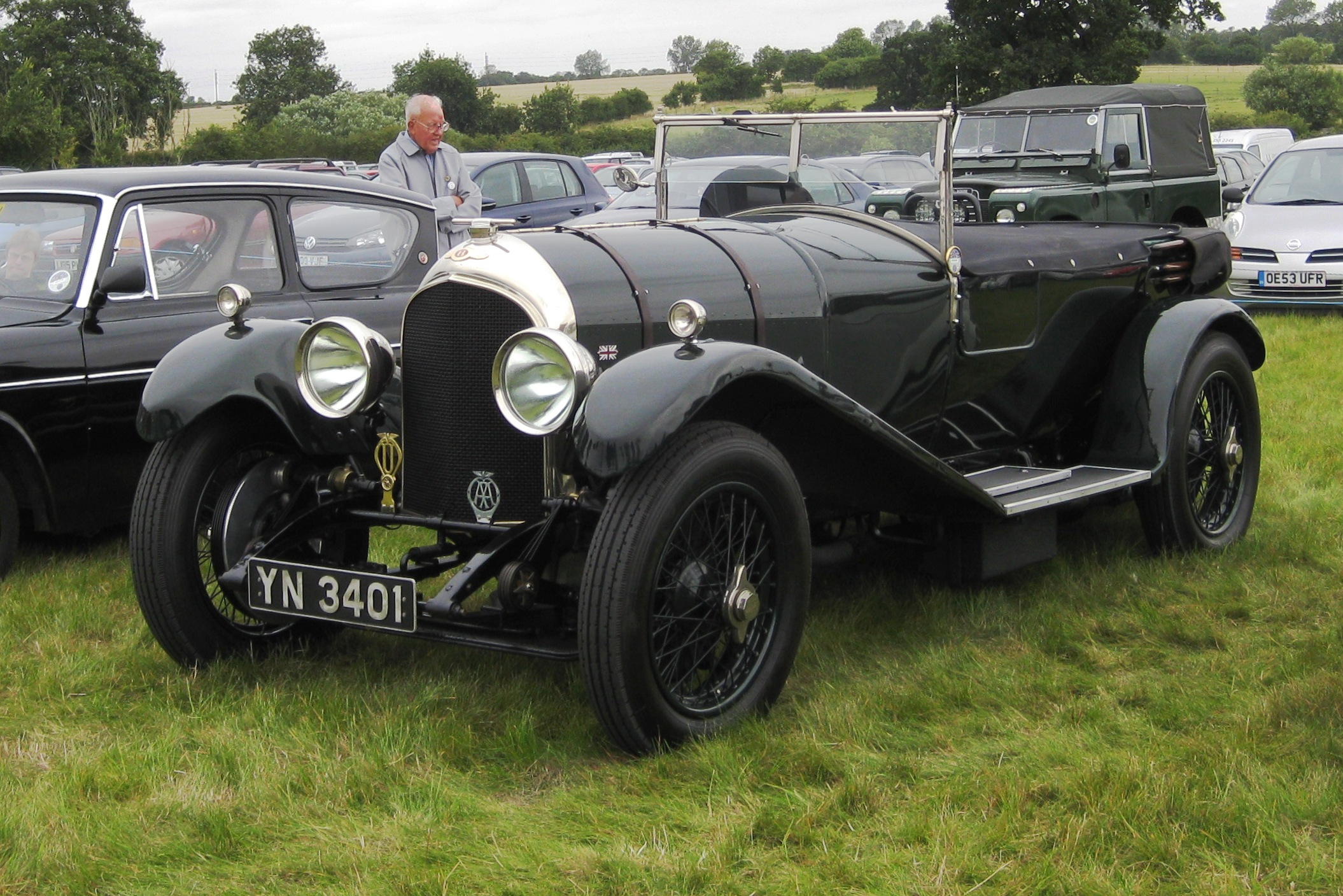 Bentley 3-litre Chassis No AH1491 wheelbase 9'9½" Engine No AH1494 high compression engine, twin SU carburettors Registration YN 3401 Delivered March 1926 4-seater body by Vanden Plas source of info